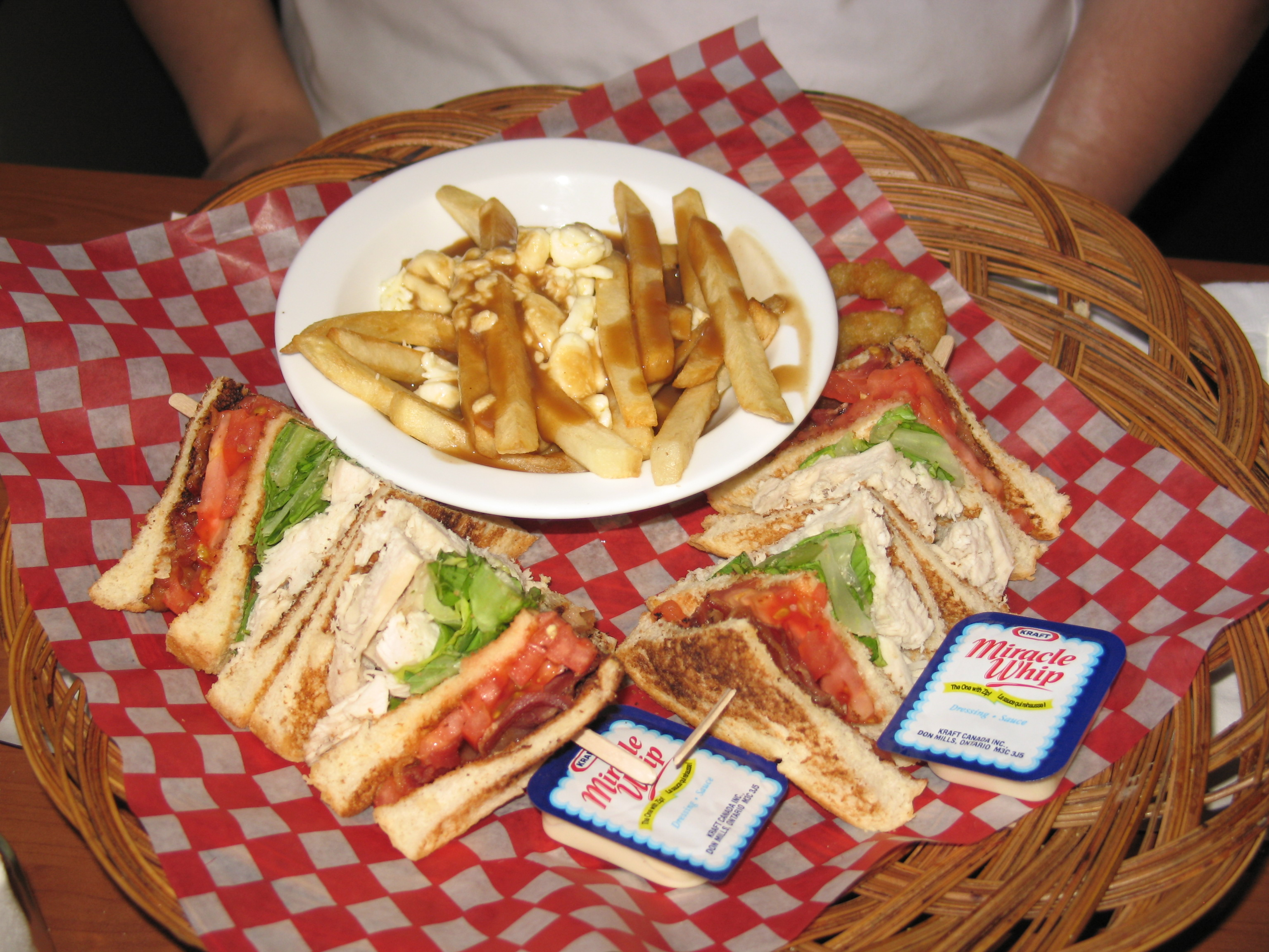 Club sandwich and poutine, two house specialties at Le Madrid Restaurant in Saint-Léonard d'Aston, Quebec.